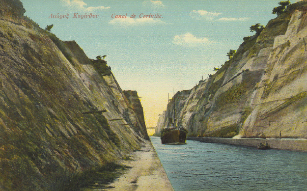 Corinth Canal in an old postcard